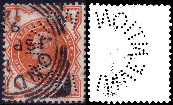 Invention perfin G F Redfern and Co. London patent agent sbased at 4 South Street, Finsbury, London EC and whose telegraphic address was "INVENTION".